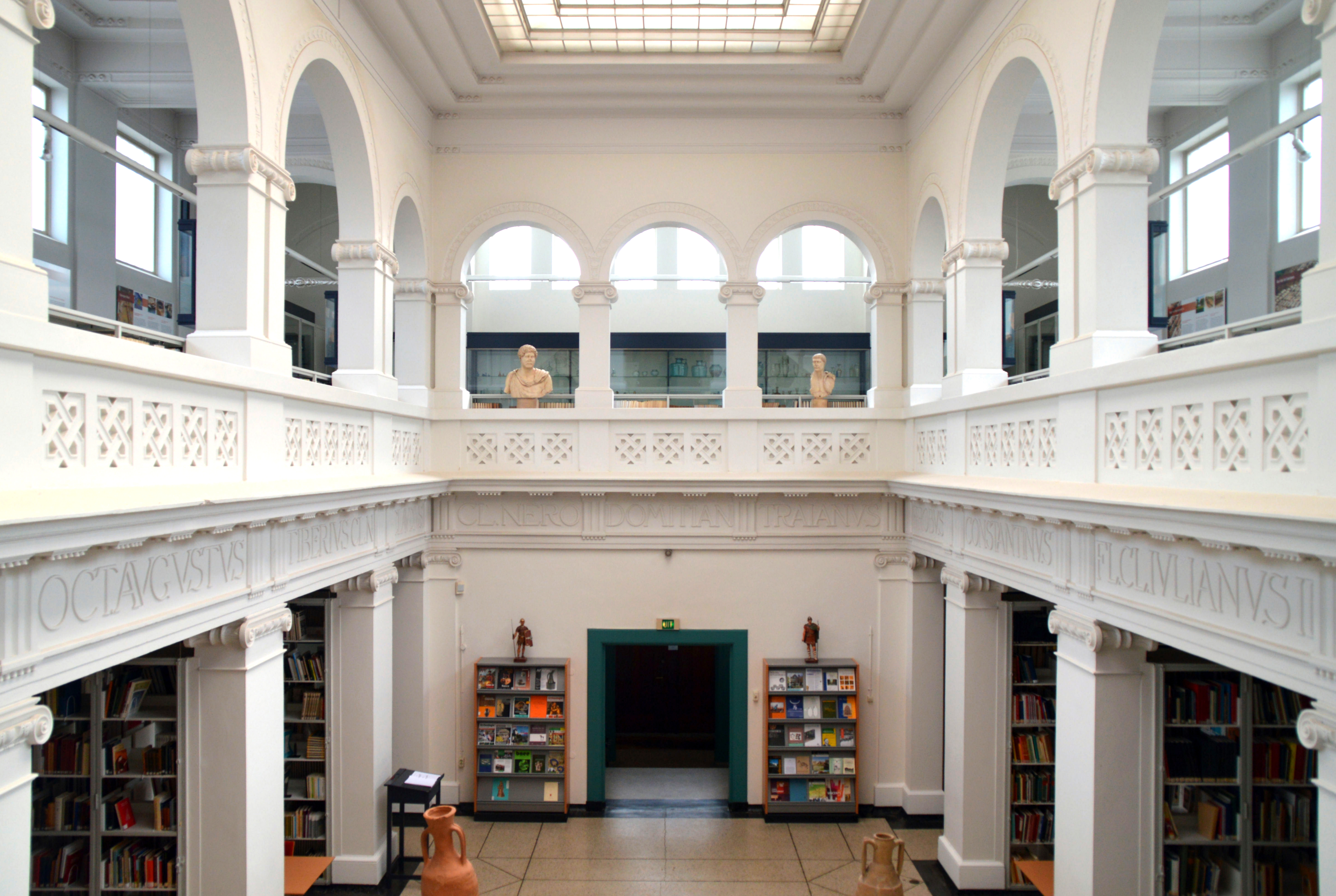 Gerard Marius Kam Museum Kam Nijmegen Oscar Leeuw 1922 Museum Kamstraat 45 Atrium